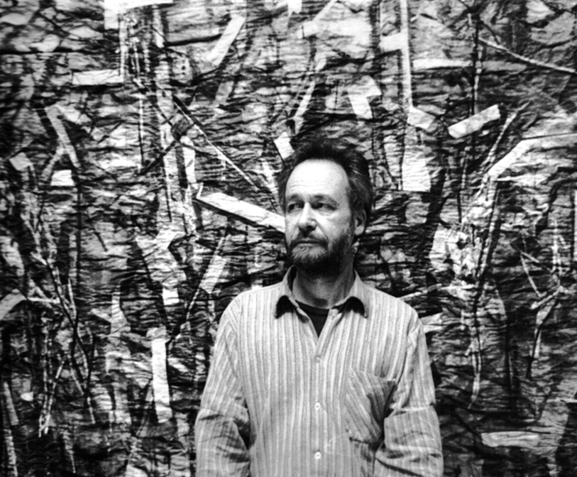 Jörg Hoffmann working on a picture in his atelier at Berlin-Schöneberg (1990)